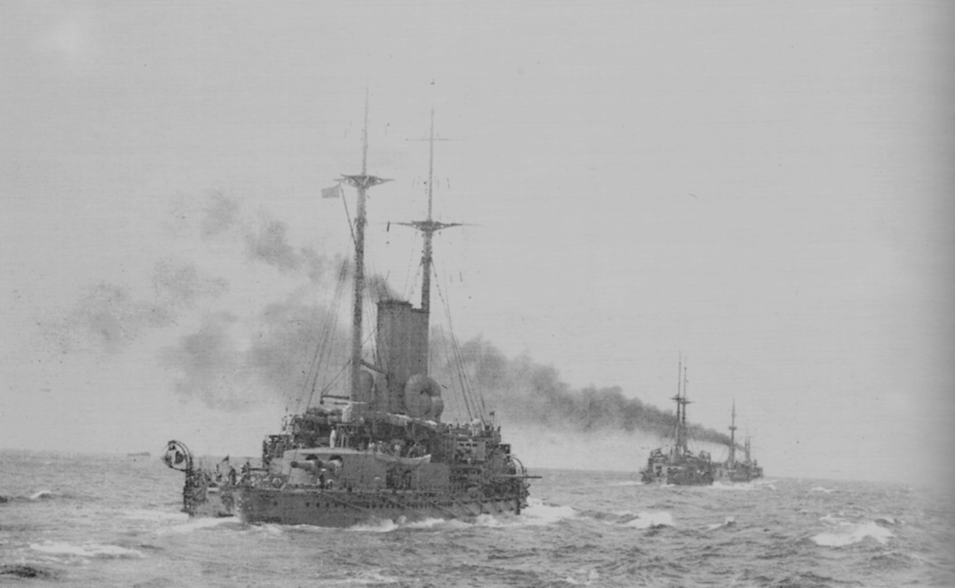 Imperial Russian battleship Tri Svyatitelya.